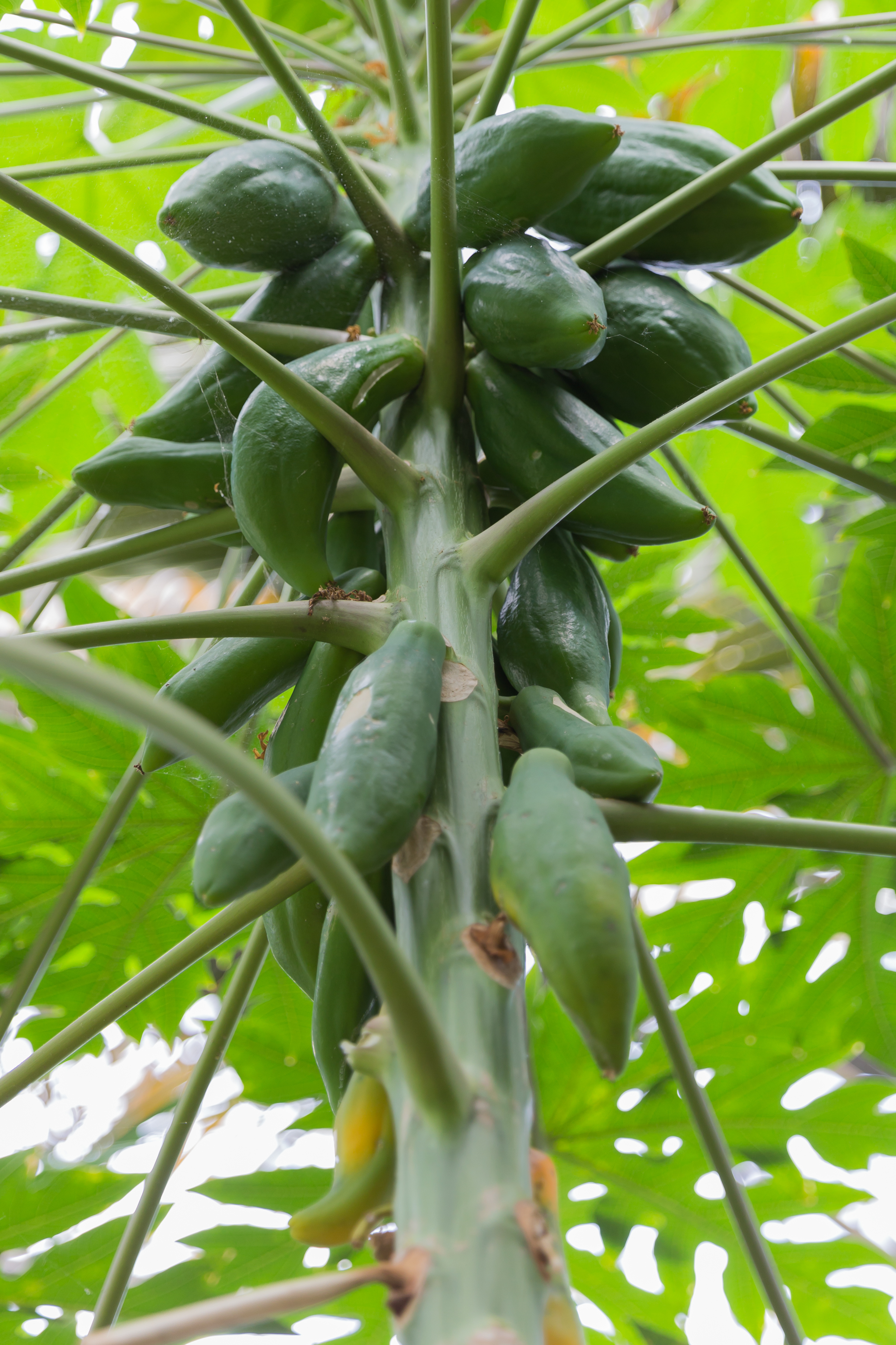 Carica papaya (Papaya); detail of the fruit (papaya), the jardin botanique de Lyon, France.